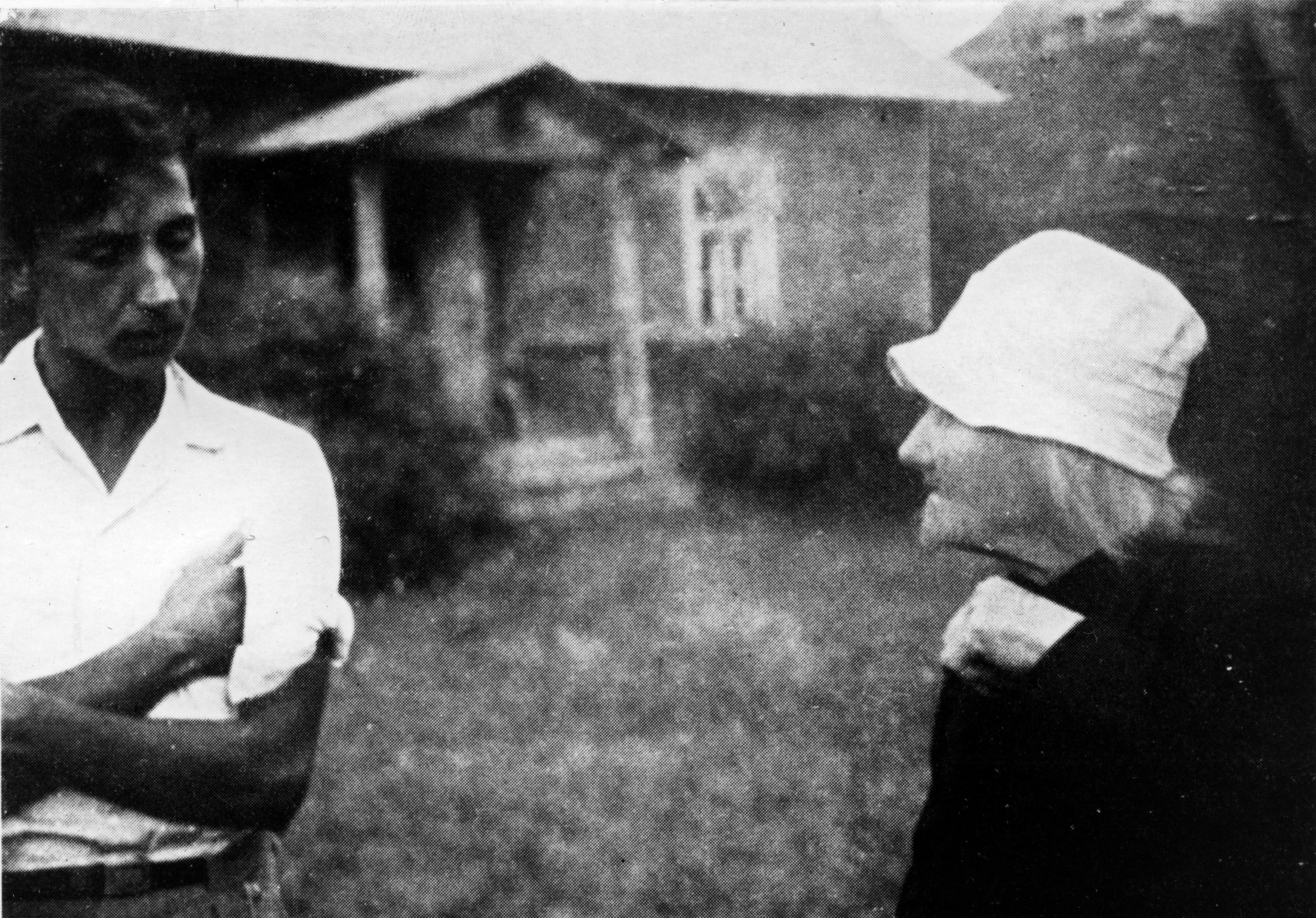 Helena Södergran och Alf Krohn. Edith Södergrans samling Signum: slsa566_389 Foto: Okänd / Unknown Svenska litteratursällskapet i Finland